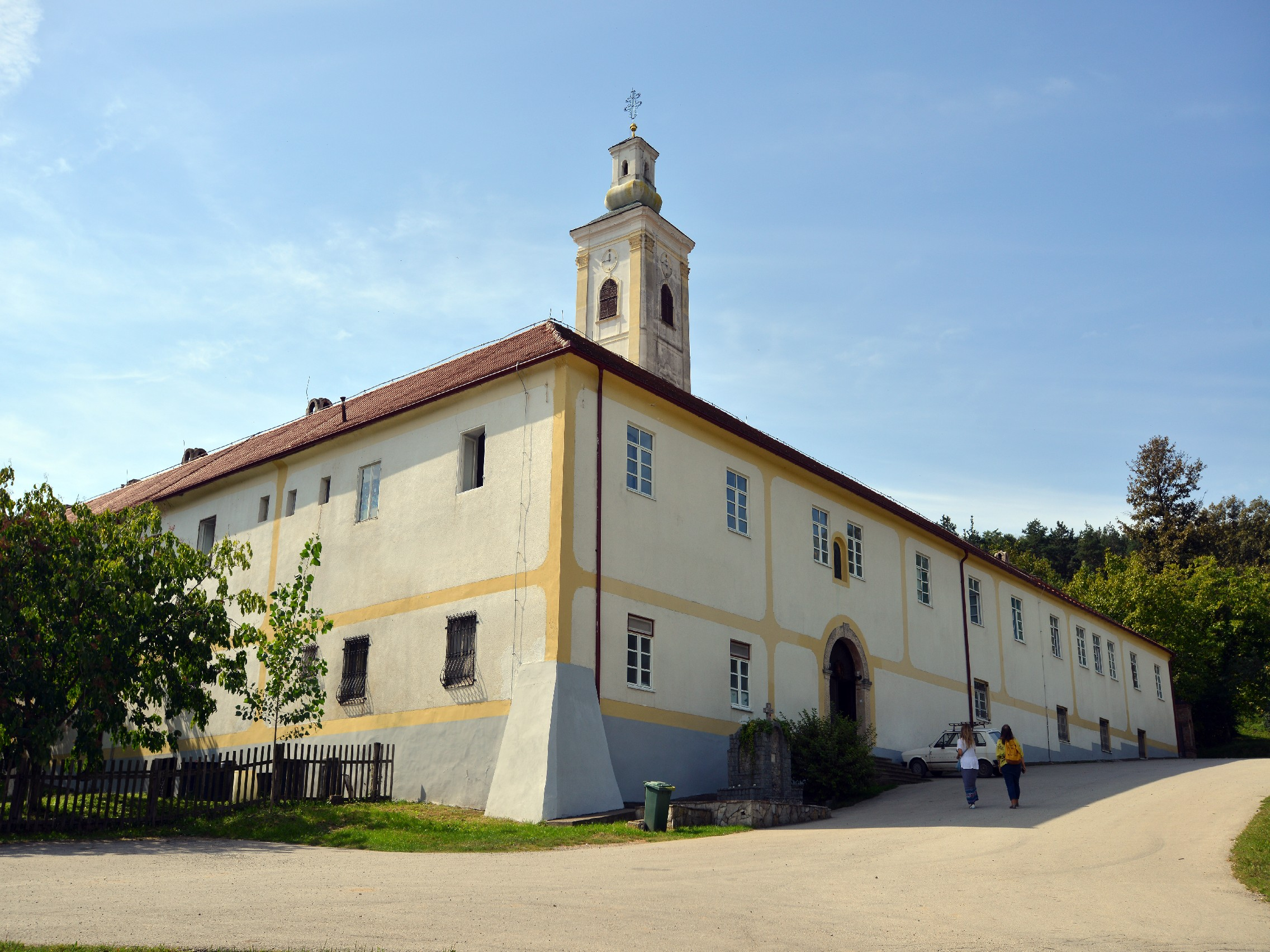 General look of Velika Remeta monastery